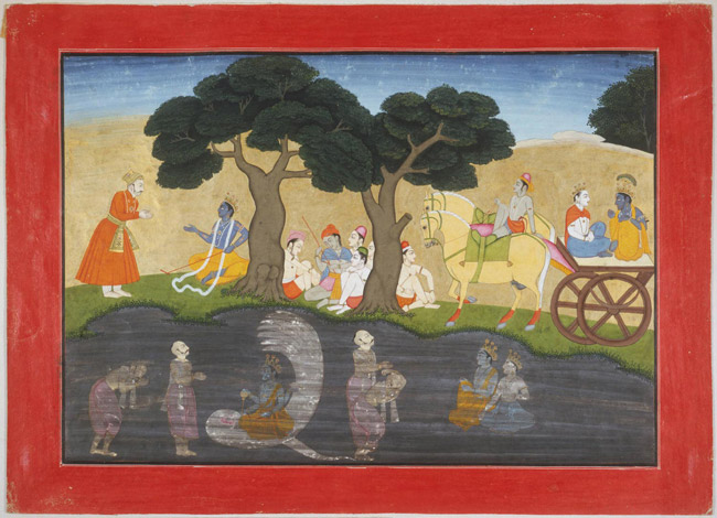 Akrura's Mystic Vision of Krishna/Vishnu and Balarama/Adishesha Page from a dispersed series of the Bhagavata Purana (10:39) Made in Basohli, Jammu and Kashmir, India c. 1760-65 Artist/maker unknown, India Opaque watercolor with gold on paper 11 1/2 x 16 inches (29.2 x 40.6 cm) Currently not on view 1994-148-483 Stella Kramrisch Collection, 1994 Label Kansa knew that Krishna was hidden at Vrindavan and sent many demons to kill him. With superhuman power, Krishna destroyed each in turn. As Krishna approached manhood, Kansa dispatched the nobleman Akrura to trick him into coming to Mathura for a tournament. Although Akrura warned Krishna of the trick, the god decided it was time to confront Kansa. Here Krishna, his brother Balarama, several gopas (cowherders), and Akrura stop along the road to Mathura. Akrura speaks with Krishna (upper left), asking the brothers to rest in the chariot (upper right) while he performs a ritual bath in the river. Each time Akrura immerses himself, he experiences a mystic vision of Krishna and Balarama. First he sees the divine brothers sitting together underwater (lower right), although he knows they are actually seated in the chariot on the bank. In his final vision (lower left), he perceives their eternal form, four-armed Vishnu (Krishna) resting on Adishesha, the endless serpent (Balarama).